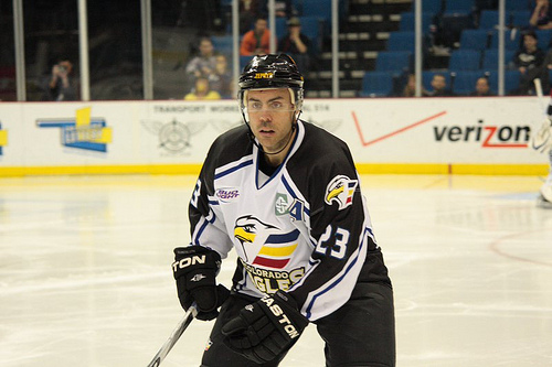 Picture of hockey player Aaron Schneekloth in a game